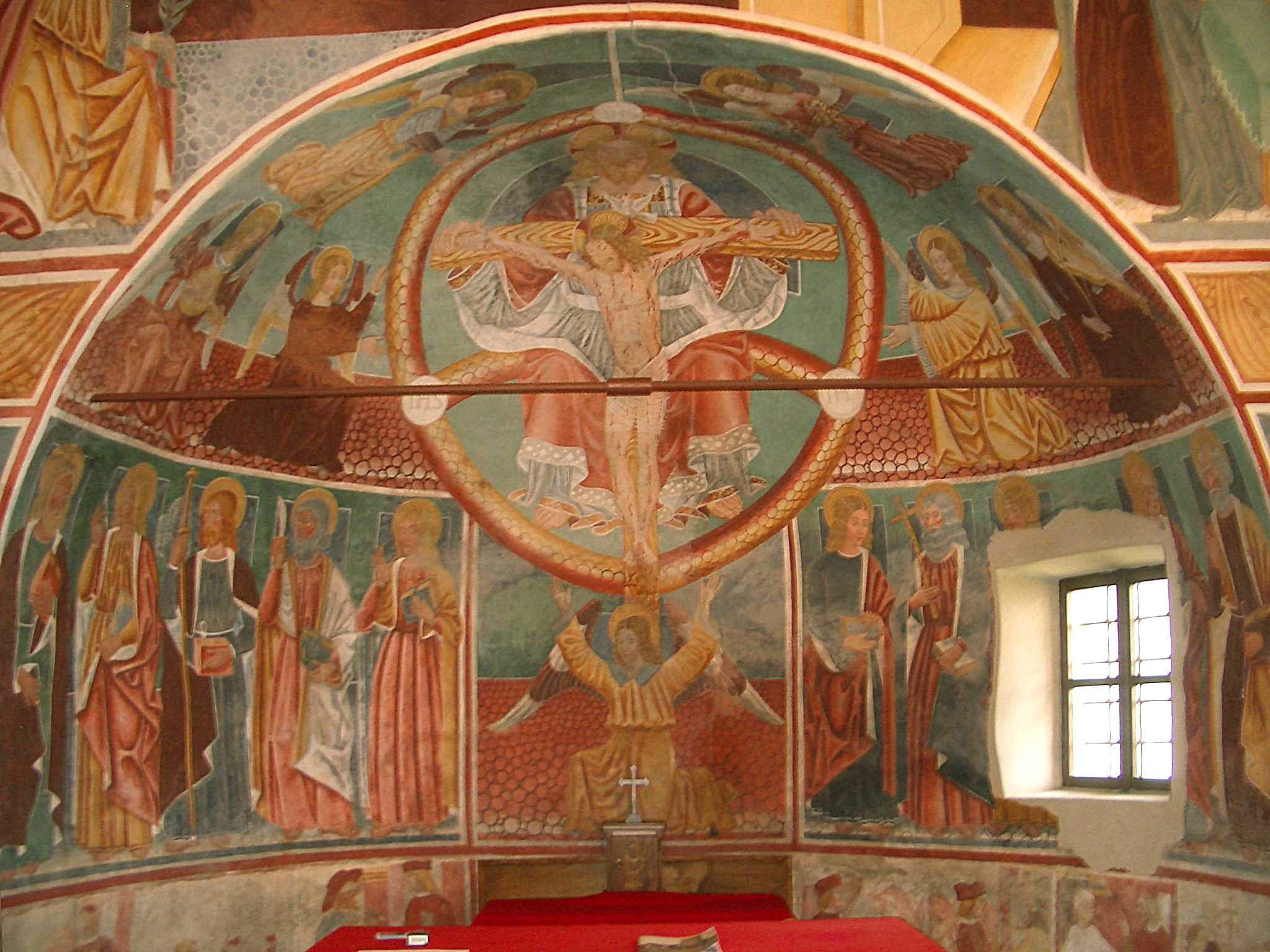 Momo (NO), oratory of Holy Trinity, frescoes in the apse, likely painted by Giovanni and Francesco Cagnola, end of XV century - beginning of XVI century